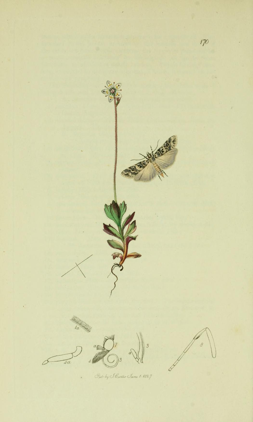 An illustration from British Entomology by John Curtis. Lepidoptera: Eudorea (invalid) murana Scoparia scoparia Scotch Gray, Wall Grey).